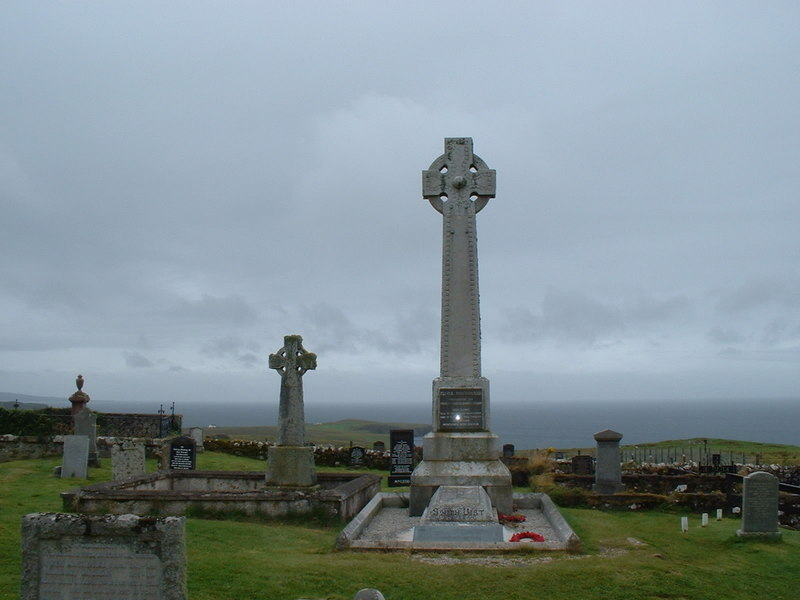 Flora MacDonald Monument, Kilmuir Cemetery After the Battle of Culloden in 1746, Flora MacDonald helped save Bonnie Prince Charlie from Government forces, bringing him safely over the sea to Skye.